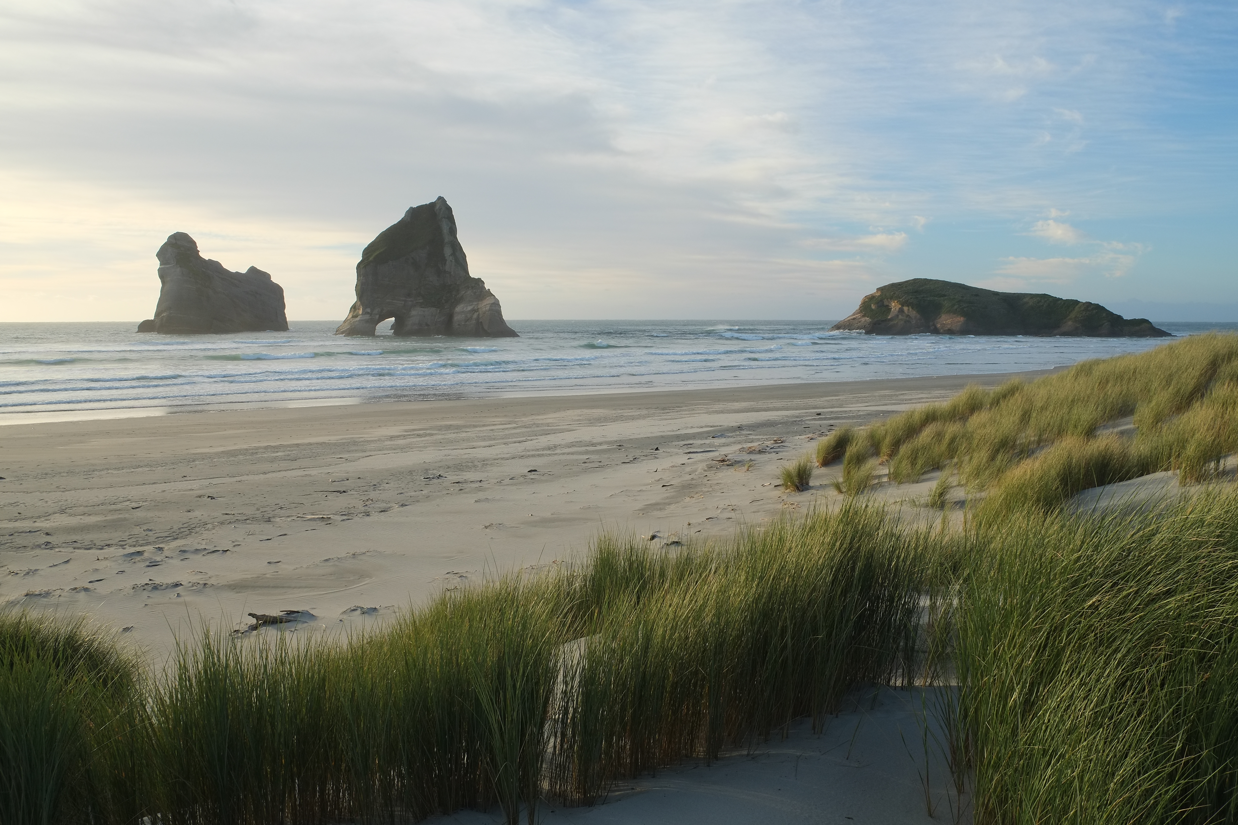 Wharariki Beach and Archway Islands (all three larger islands of the Archway Islands in view)